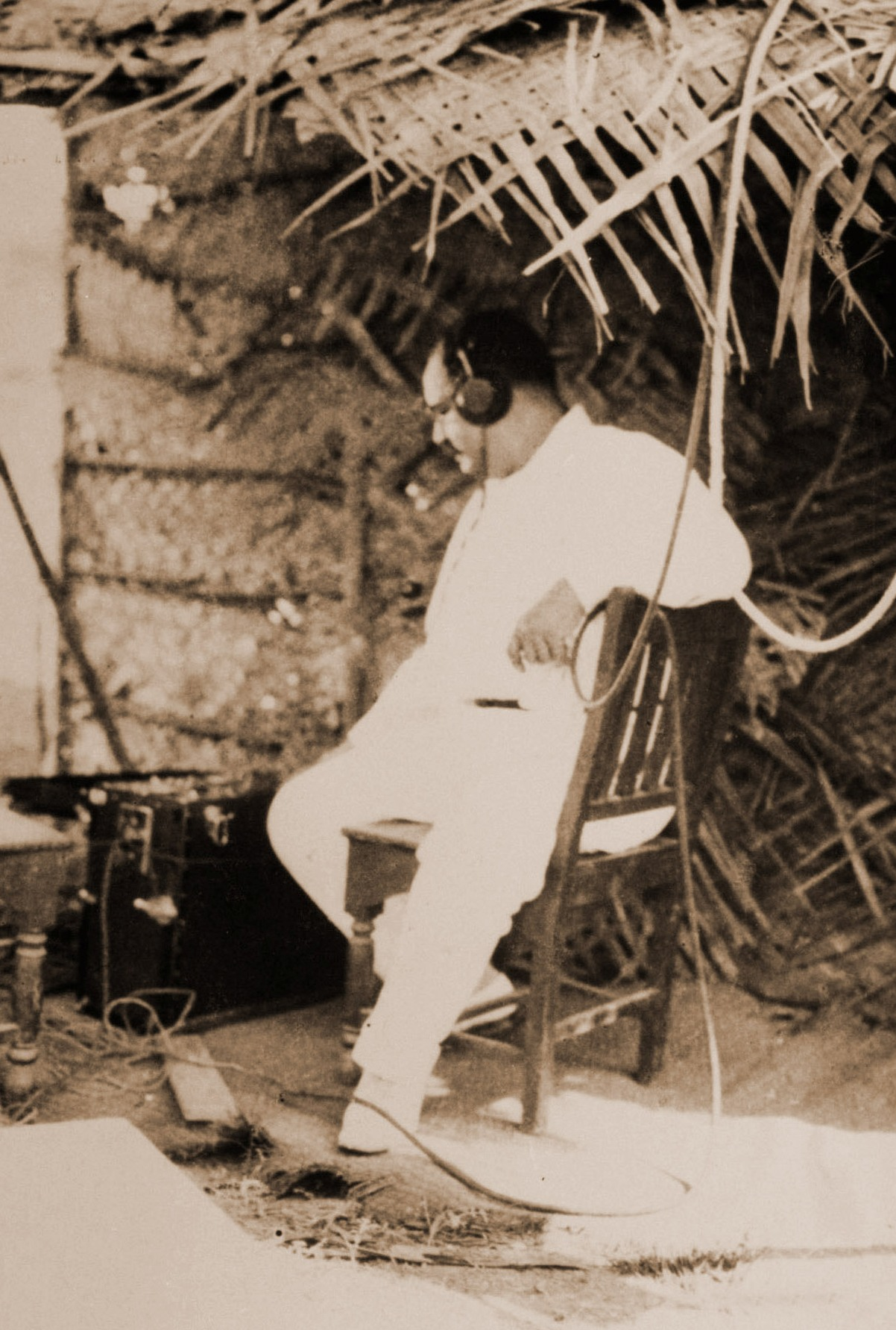 Director, Ardeshir Irani recording, Alam Ara first Indian Talkie, 1931.